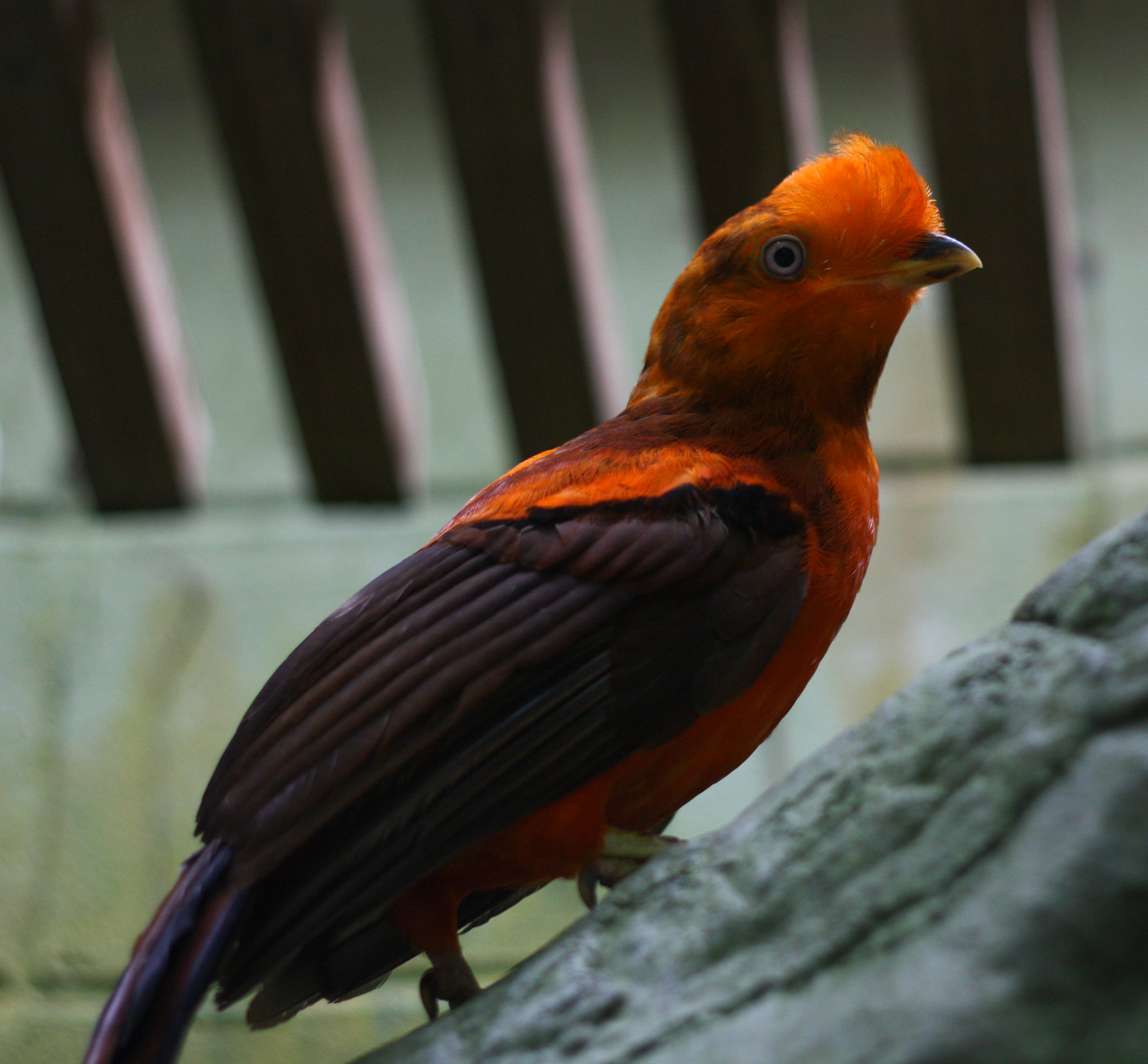 An immature male Andean Cock-of-the-rock, probably of the subspecies peruvianus or saturatus, at Cincinnati Zoo, Ohio, USA.